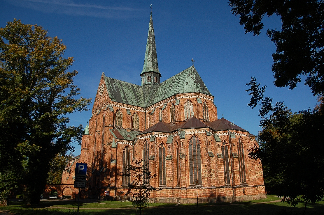 Pictures from Doberan Minster